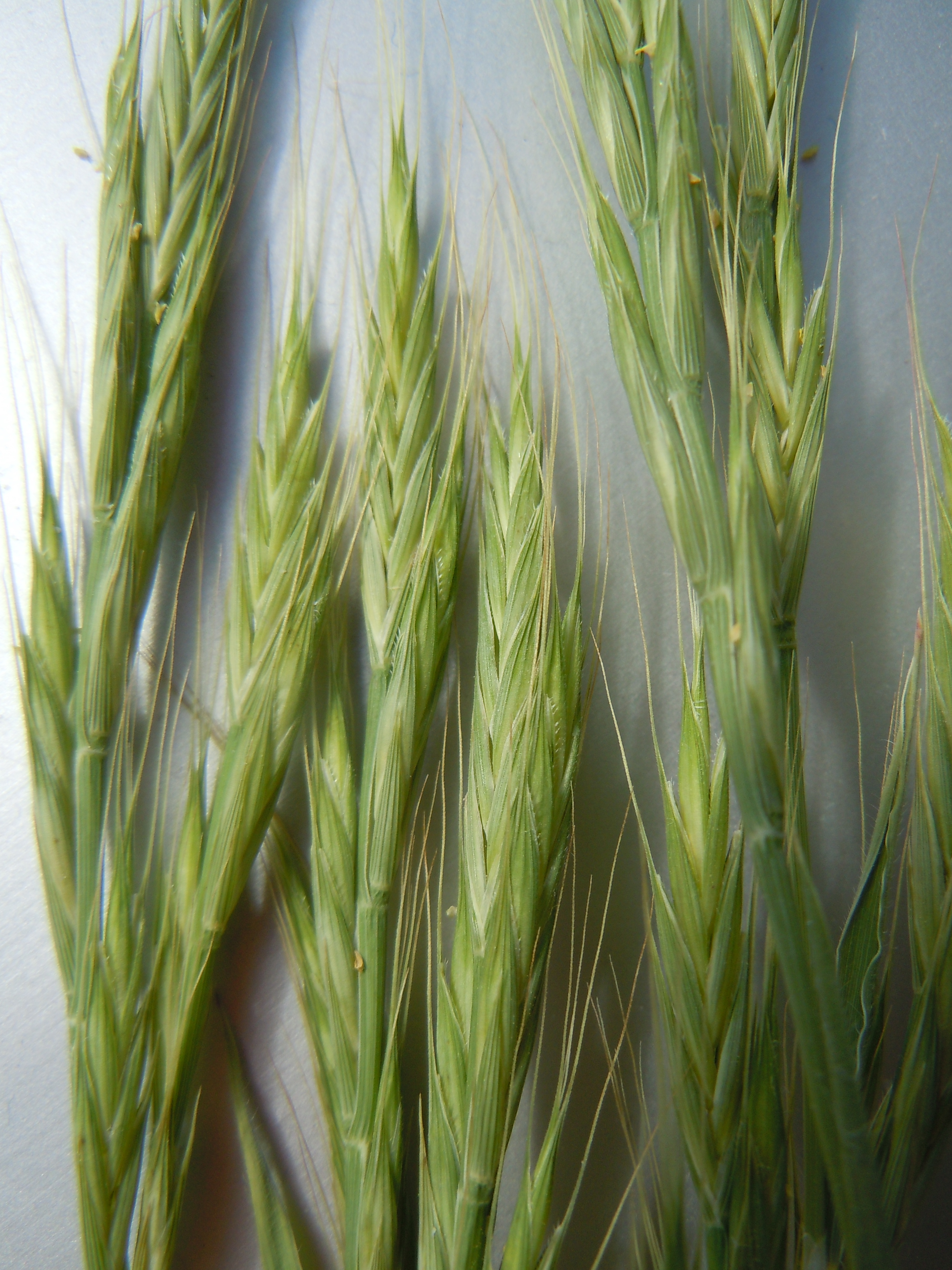 The brome-like spikelets arranged on wheatgrass-like inflorescences are distinctive of this genus. [Photo of M. Schmidt collections.]